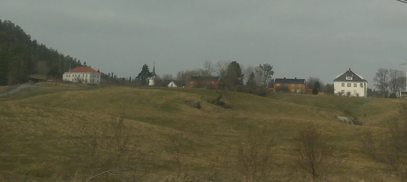 Holt church and seminary, Tvedestrand municipality, Norway